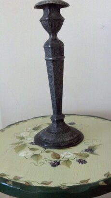 One of two exquisitie antique Derby S.P. Co Candle Stick Holder no.2547